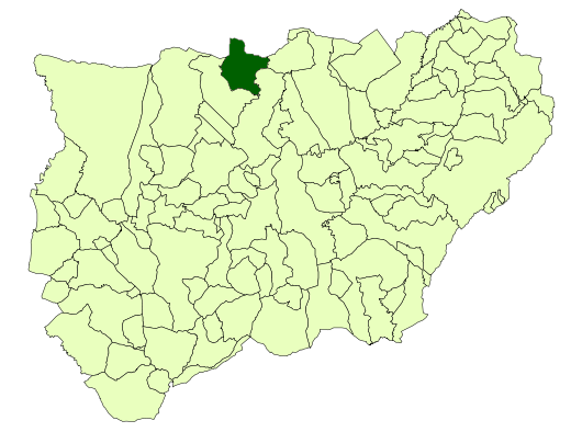 Situation of the municipality of Santa Elena (province of Jaén, Spain).